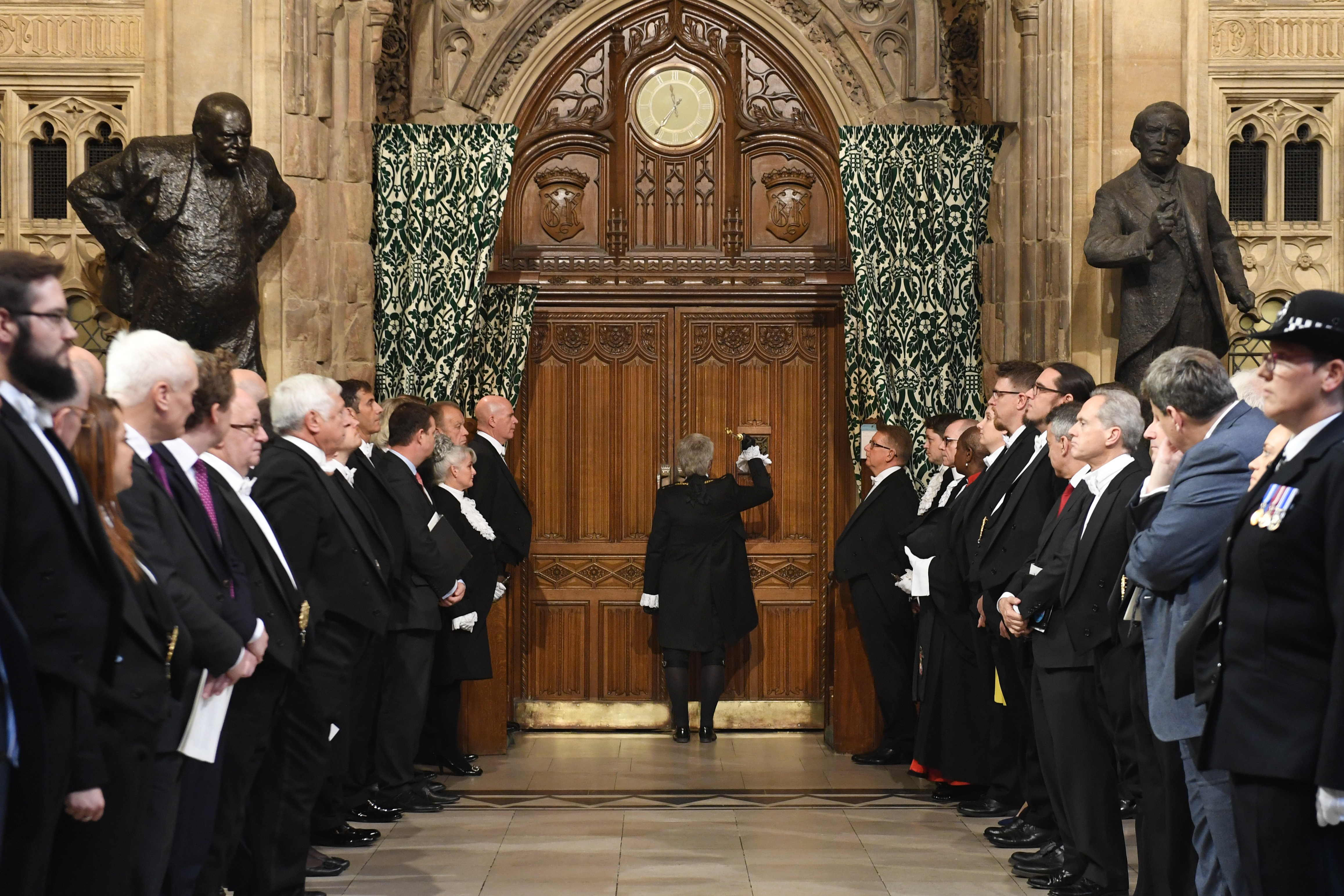 The Lady Usher of the Black Rod (Sarah Clarke) knocks on the door of the chamber of the House of Commons.